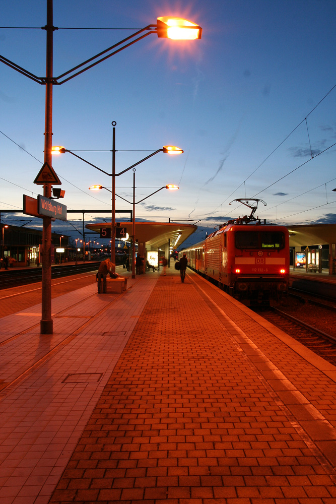 A regional express train leaves platform 4/5 at Wolfsburg Hauptbahnhof (Wolfsburg main railway station)